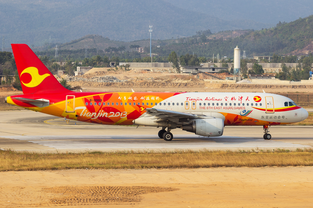 Tianjin Airlines Airbus A320 at Sanya Phoenix International Airport